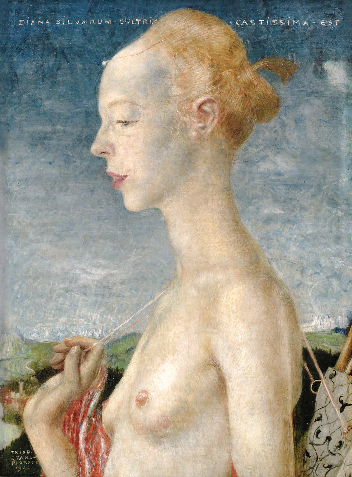 Diana Silvarum oil on panel 35.5 x 27 cm signed b.l: Fried / Stahl- / Florenz / 1920 inscribed t.: DIANA SILVARUM.CULTRIX.CASTISSIMA.EST